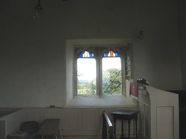 View north through the windows of St Twrog's Church, near to Llynfaes, Isle of Anglesey/Sir Ynys Mon, Great Britain.